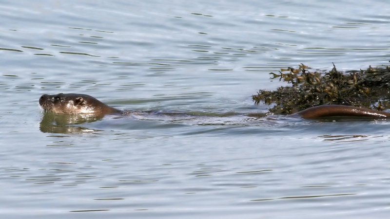 Eurasian Otter Lutra lutra, Gubbeen, Co. Cork, Ireland